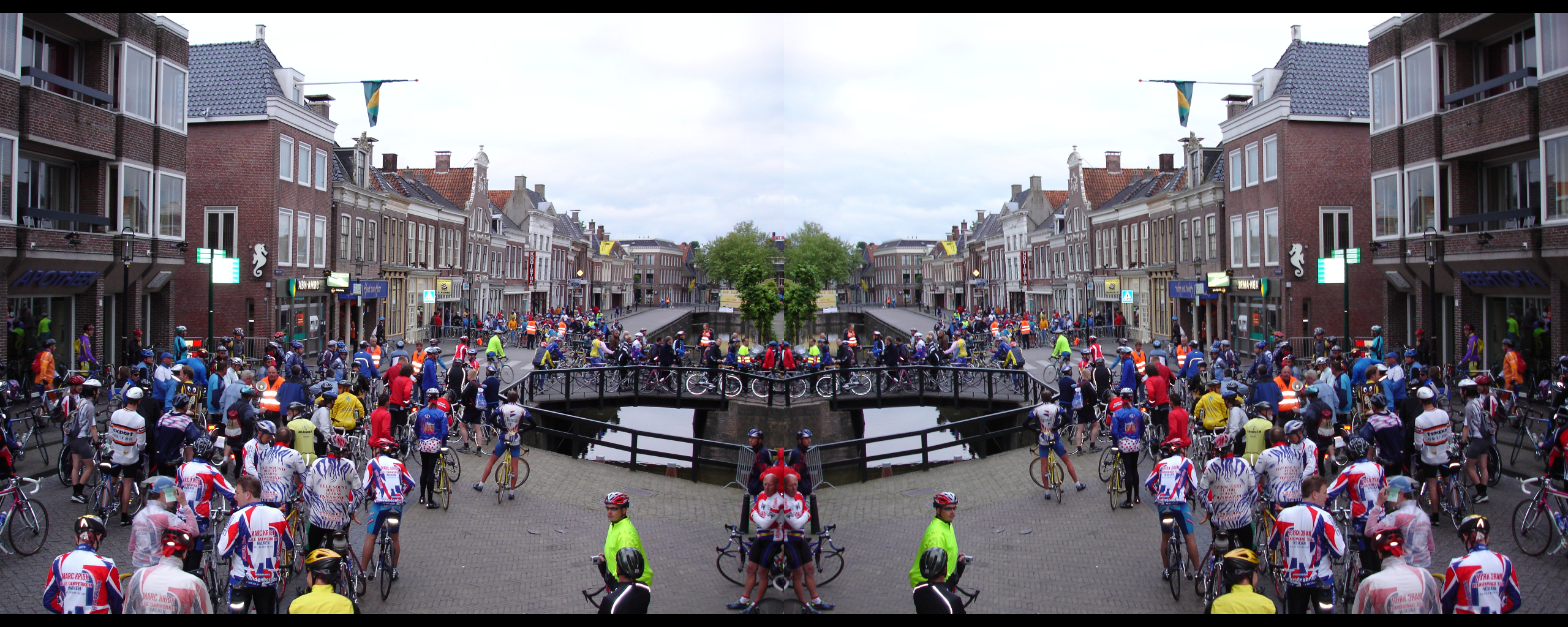 stereo picture for cobox